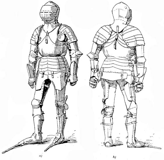 Armatura alla Francese (an Italaina ramour in French Style made for German)